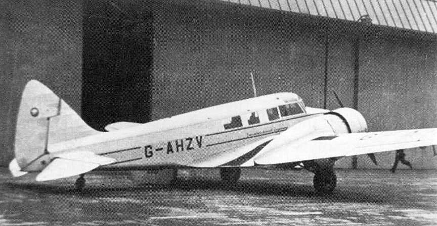 Airspeed AS.65 Consul G-AHZV of Lancashire Aircraft Corporation at Manchester in 1950 on scheuled service to London Northolt